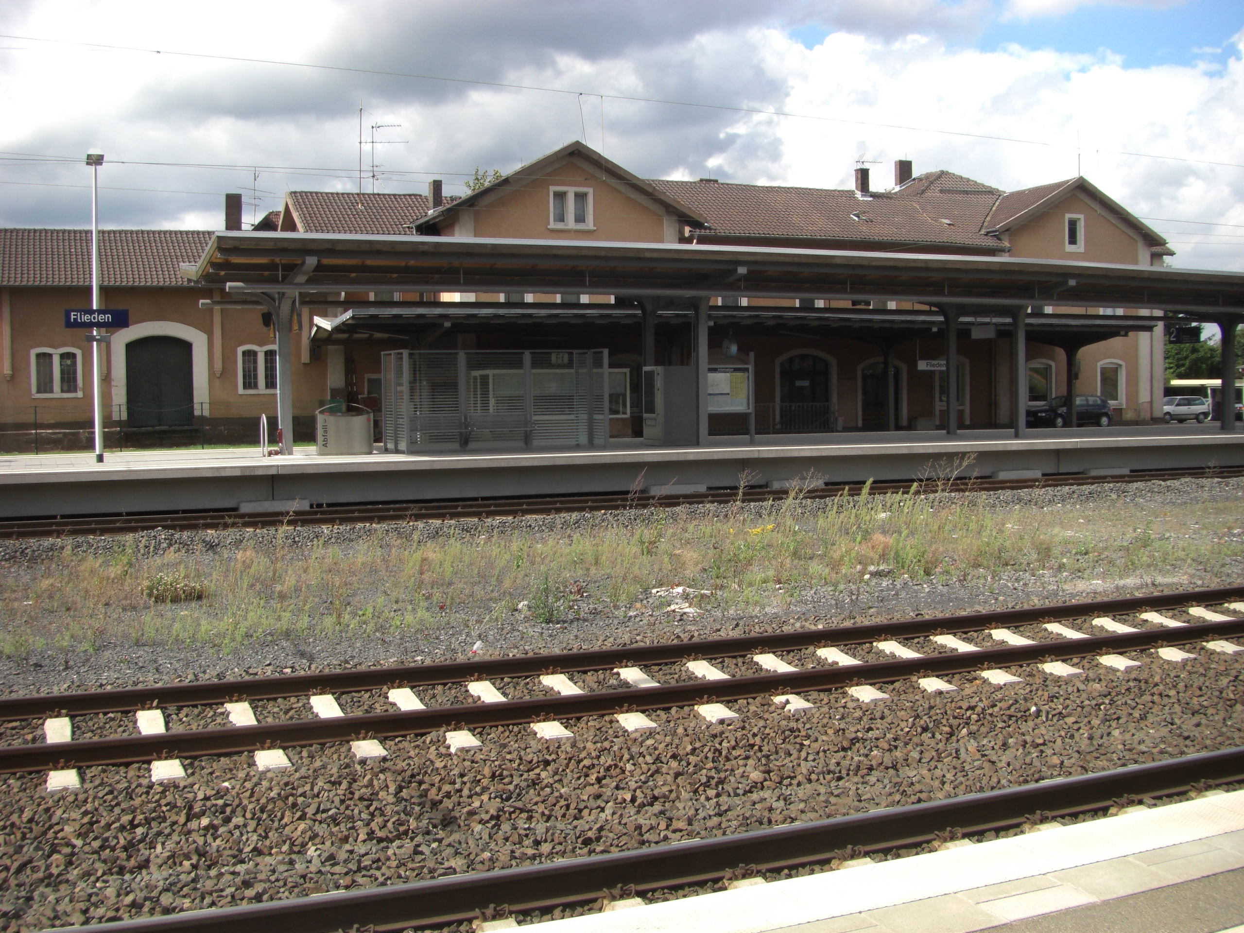 Train station Flieden on the Kinzigtalbahn (Kinzig valley line). View from platform seven to the tracks 3 and 6 and the station building.